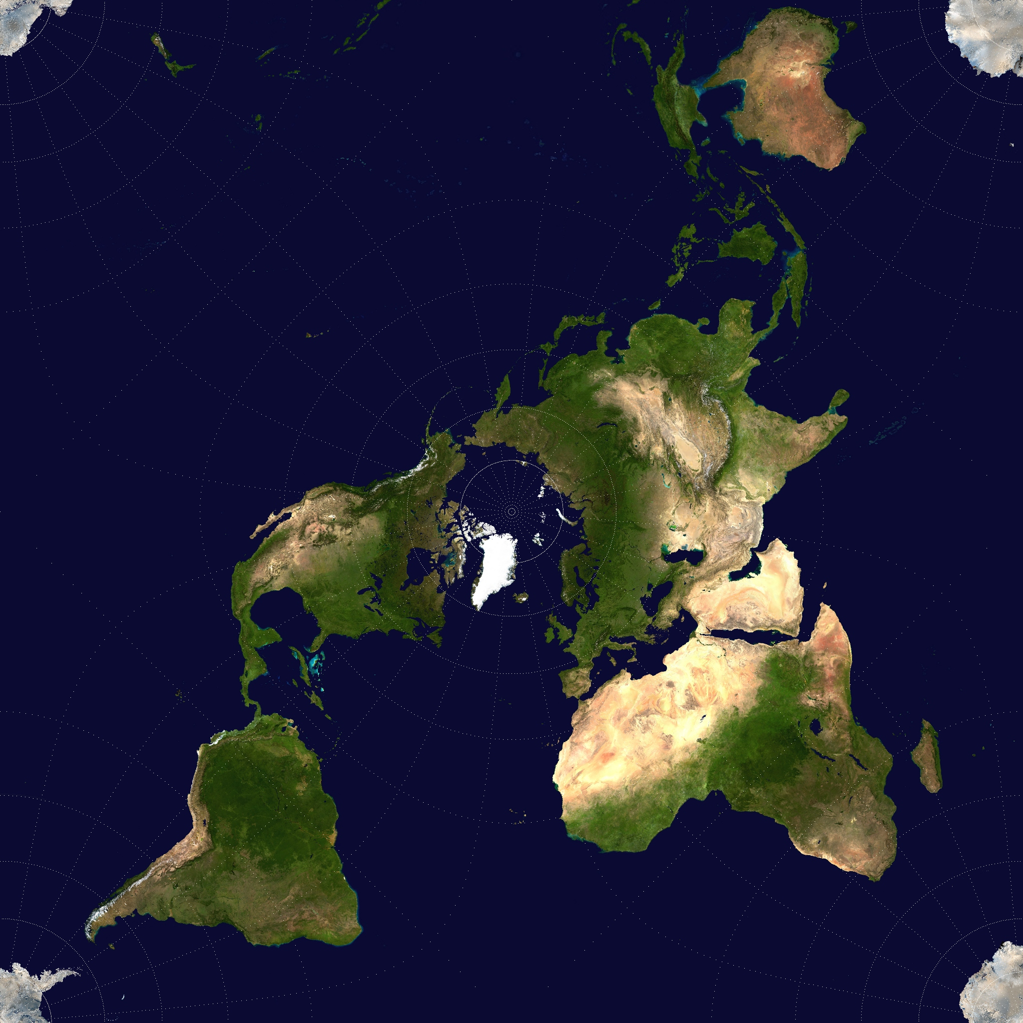 A Peirce quincuncial projection of a Visible Earth image collected by the Earth Observatory experiment of the U.S. Government's NASA space agency. The reticle is 15 degrees in latitude and longitude.